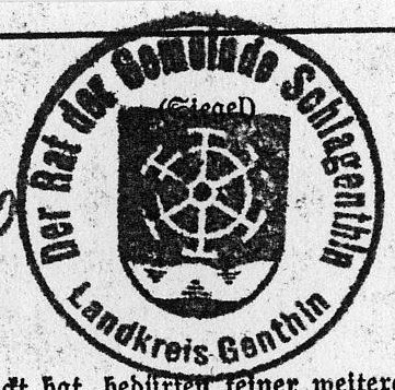 Seal of Schlagenthin, Germany